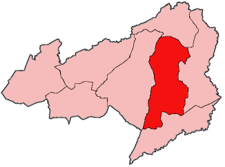 Map of Bong County, Liberia showing Jorquelleh District; created with the GIMP. Made by User:Acntx.